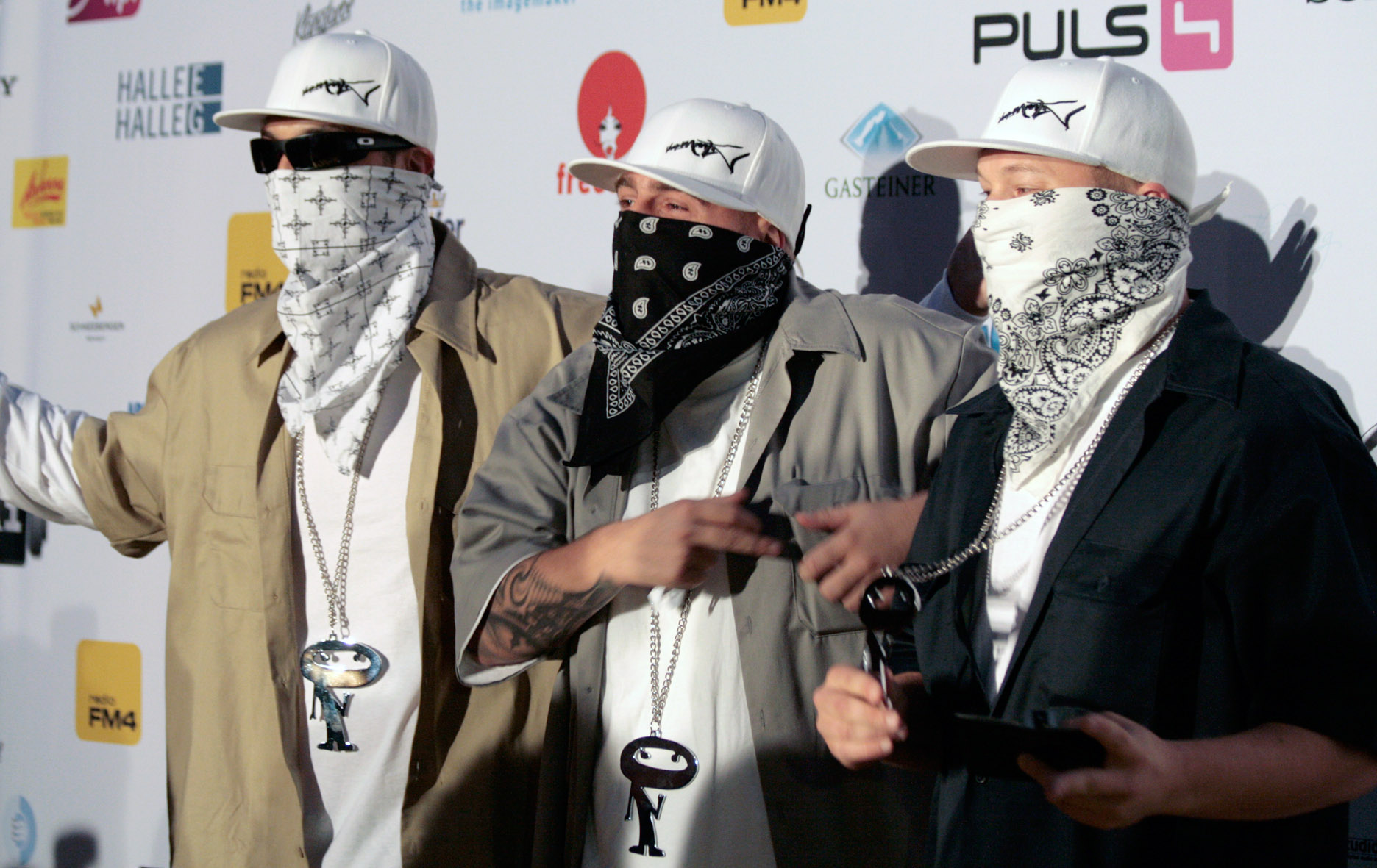 Die Vamummtn at the Amadeus Austrian Music Award (Museumsquartier, Vienna)